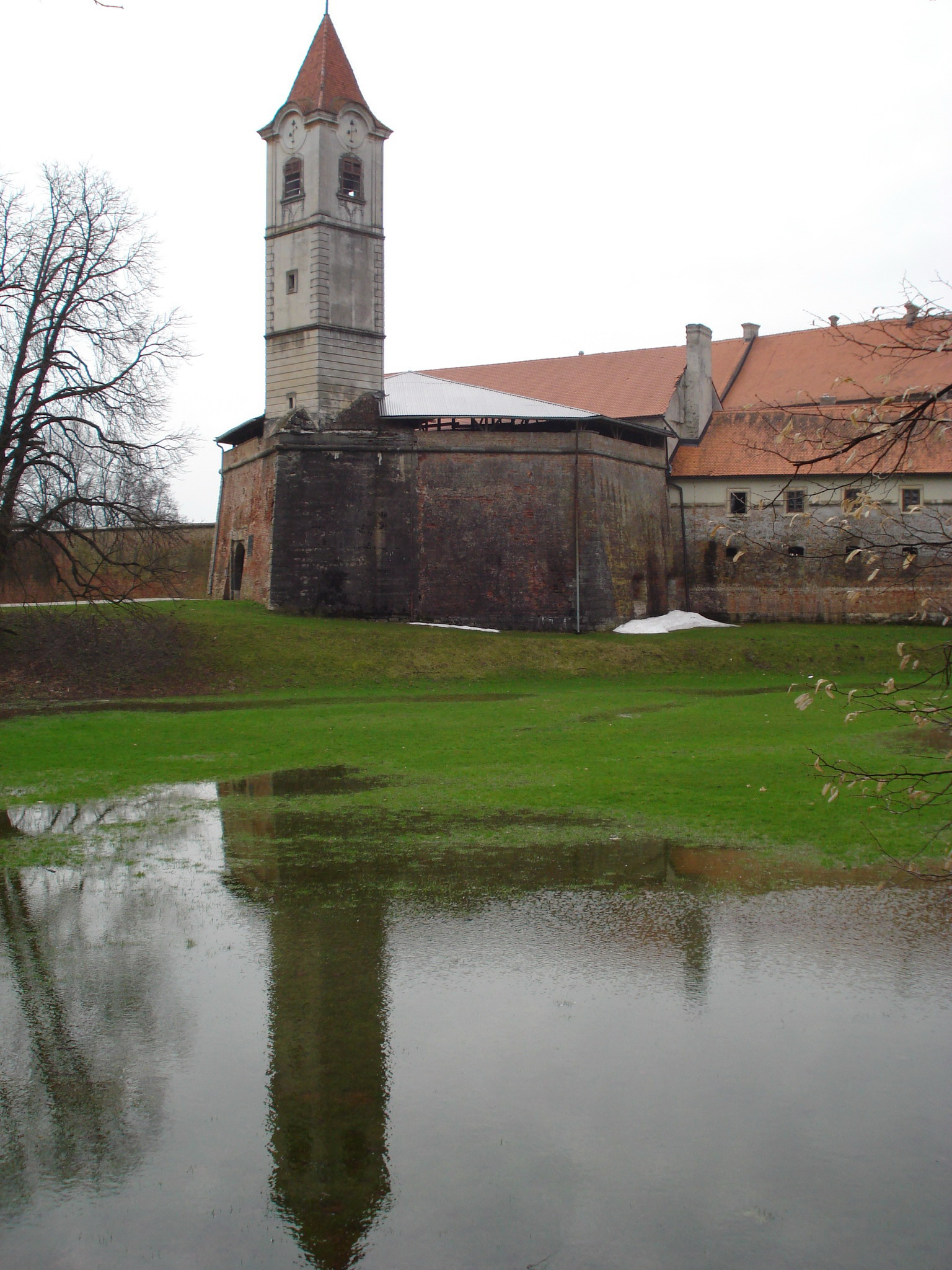 Zrinski Castle in Čakovec - shallow lake in early springtimeHrvatski: Stari grad Zrinskih u Čakovcu - plitko jezero u rano proljeće